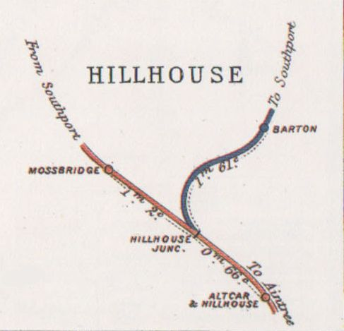 Diagram from the 1914 Railway Clearing House Diagrams. Junction of the Liverpool, Southport and Preston Junction Railway at Hillhouse Junction.